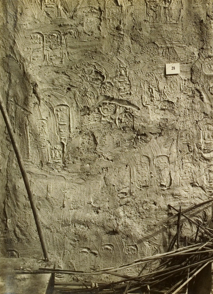 Harry Burton: Tutankhamun tomb photographs: a photographic record in 5 albums containing 490 original photographic prints ; representing the excavations of the tomb of Tutankhamun and its contents. Vol. 4